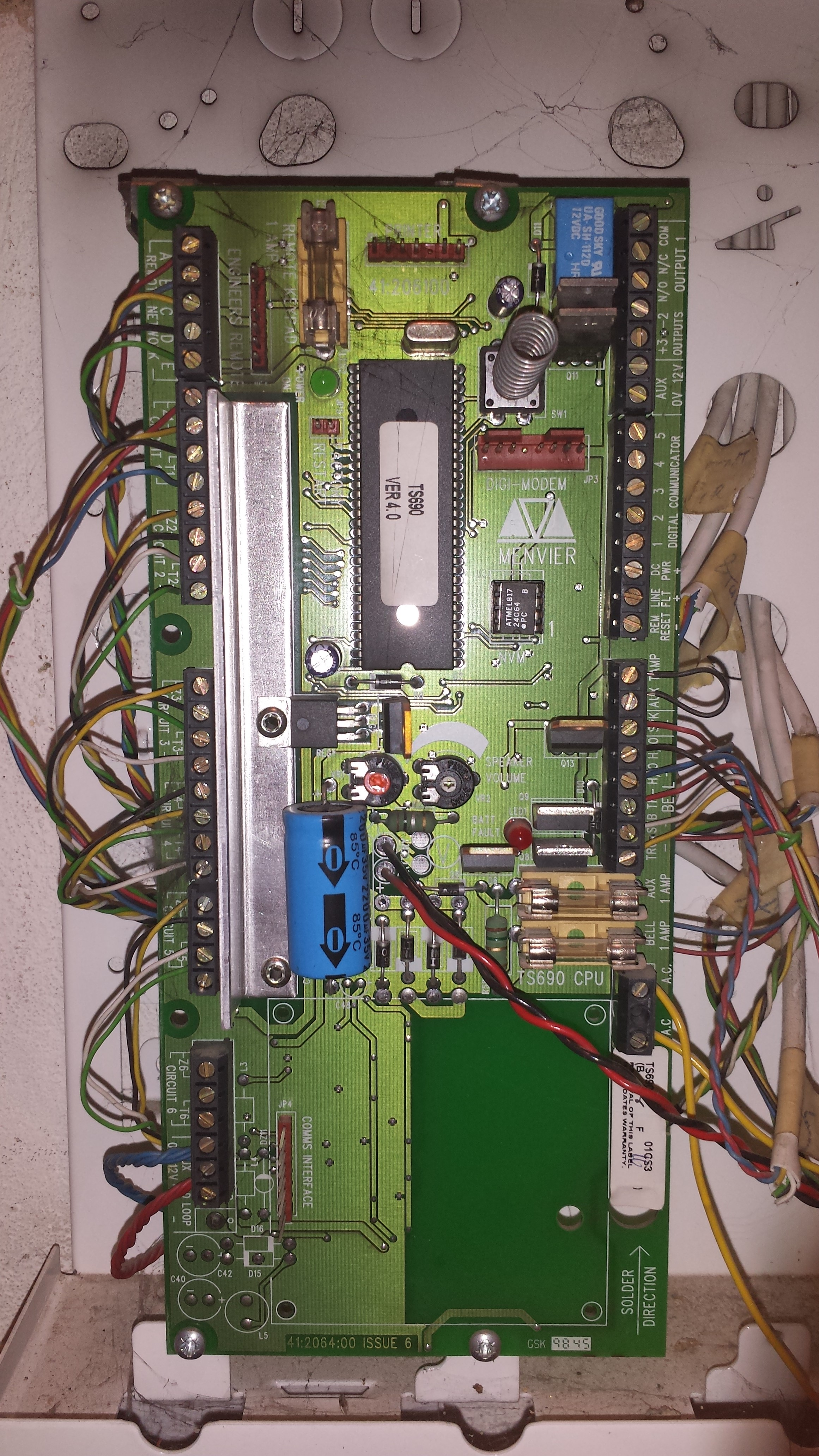 Menvier TS690 intruder alarm panel installed in 1998.